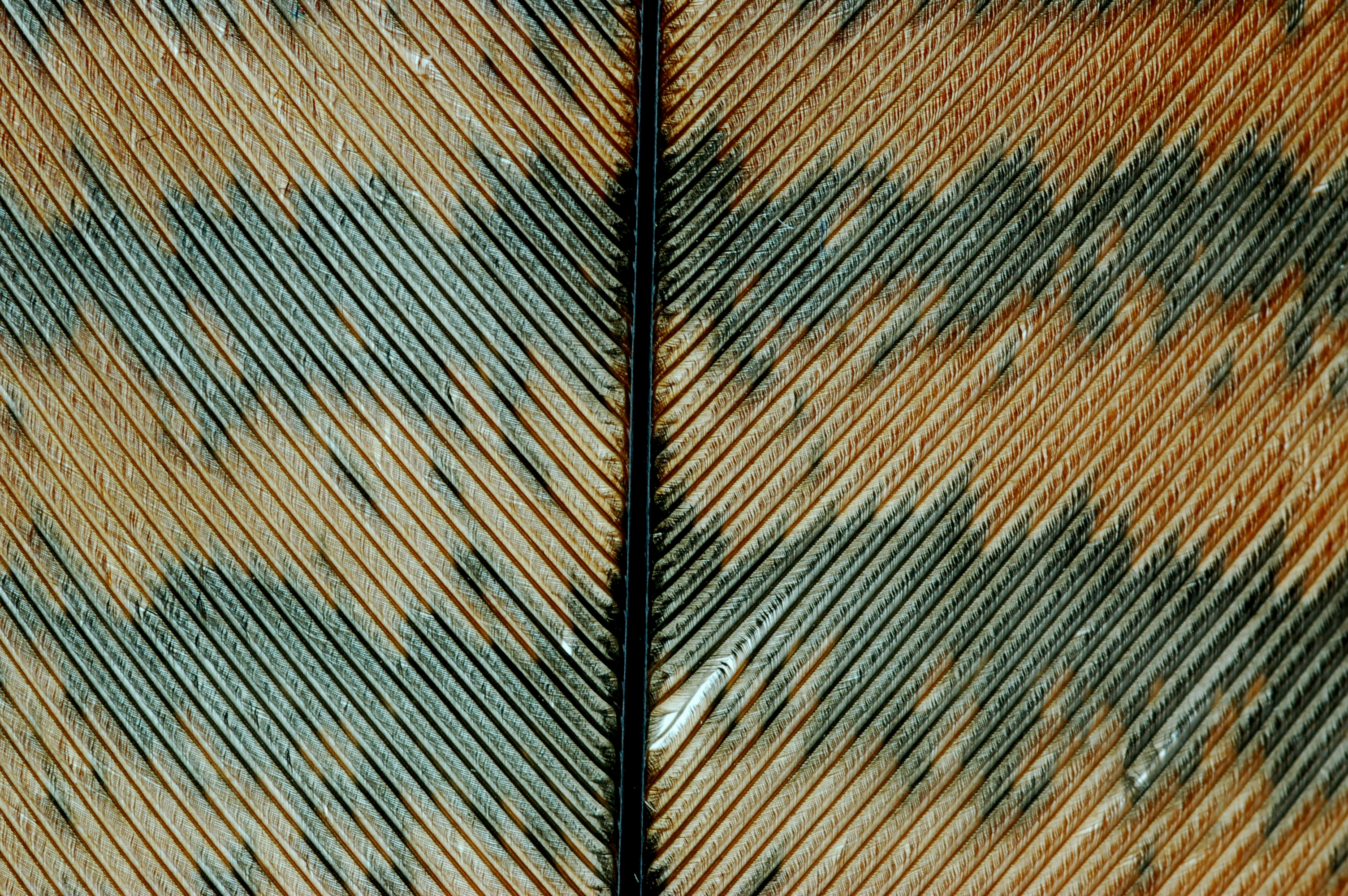 Macro close-up of a wild turkey feather showing barb structure